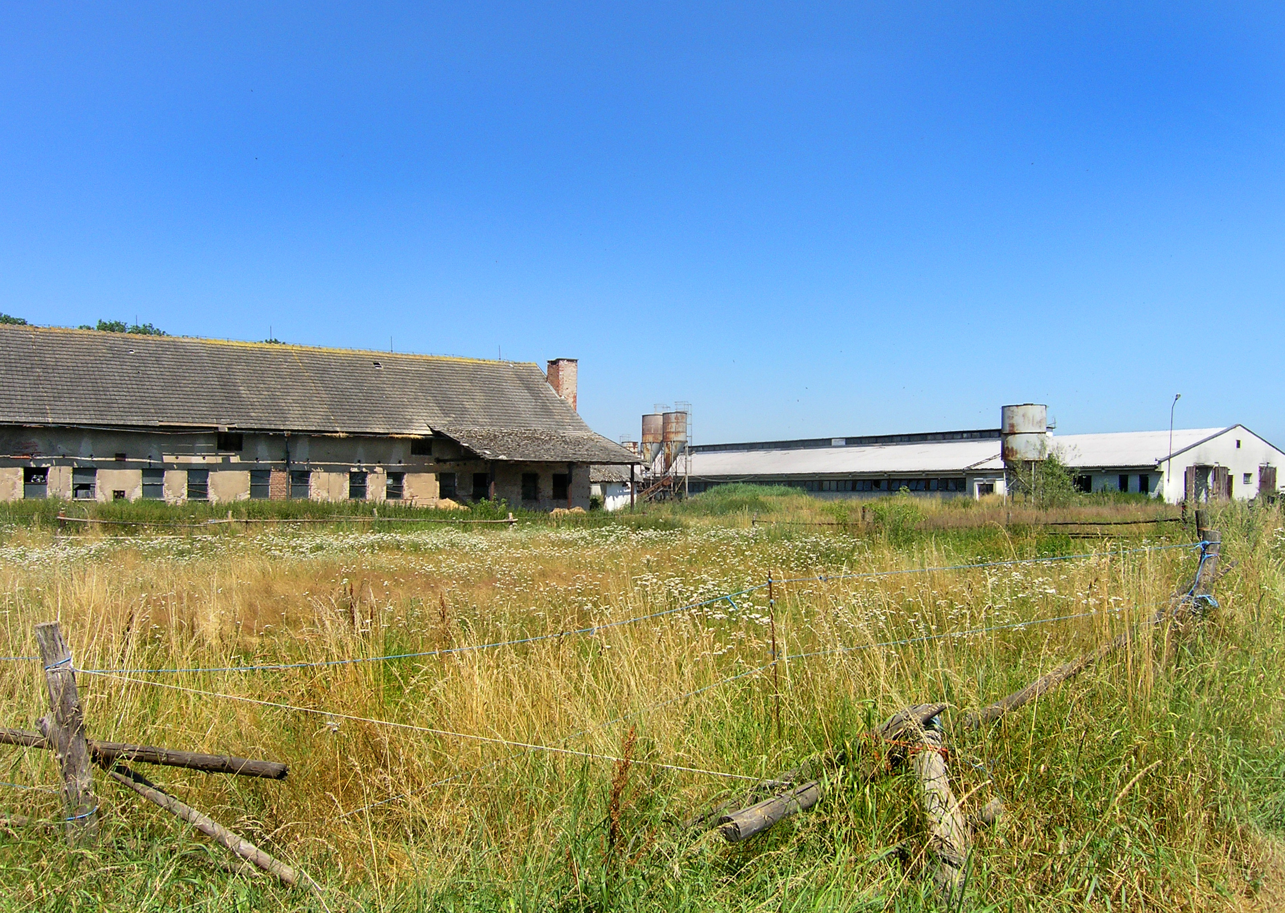 Ruins in Buda, part of Bakov nad Jizerou, Czech Republic